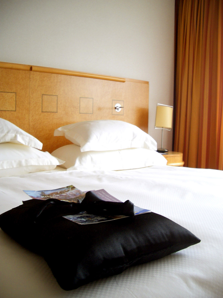 Amsterdam Hilton room